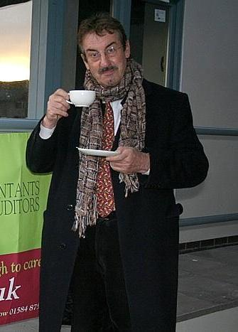 John Challis, British actor. Cropped from original.